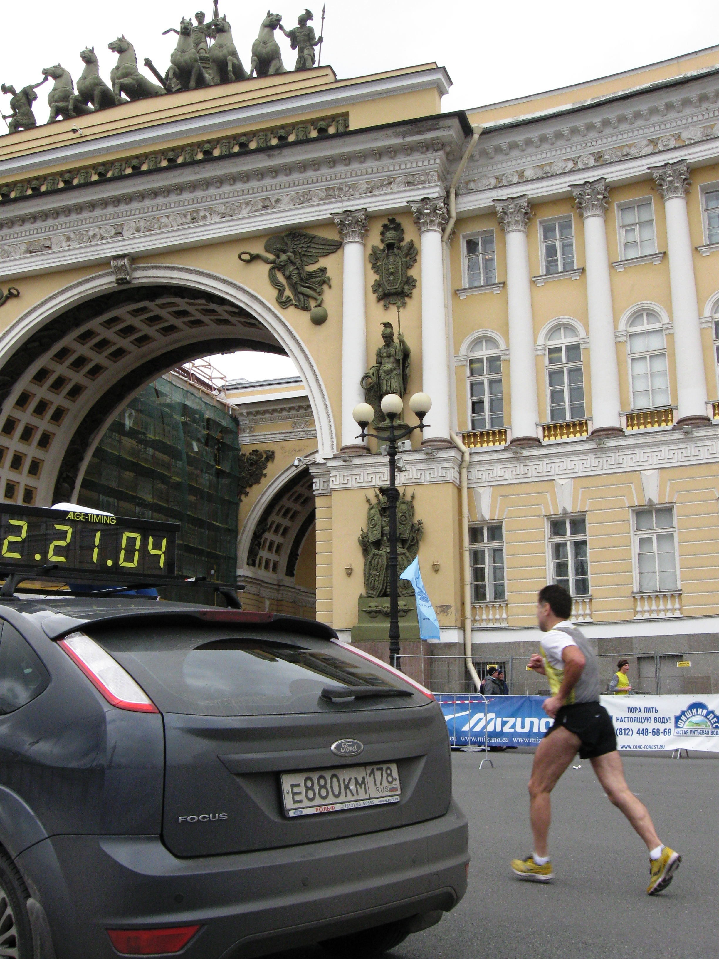 Pushkin-Petersburg marathon-2011, finish gate